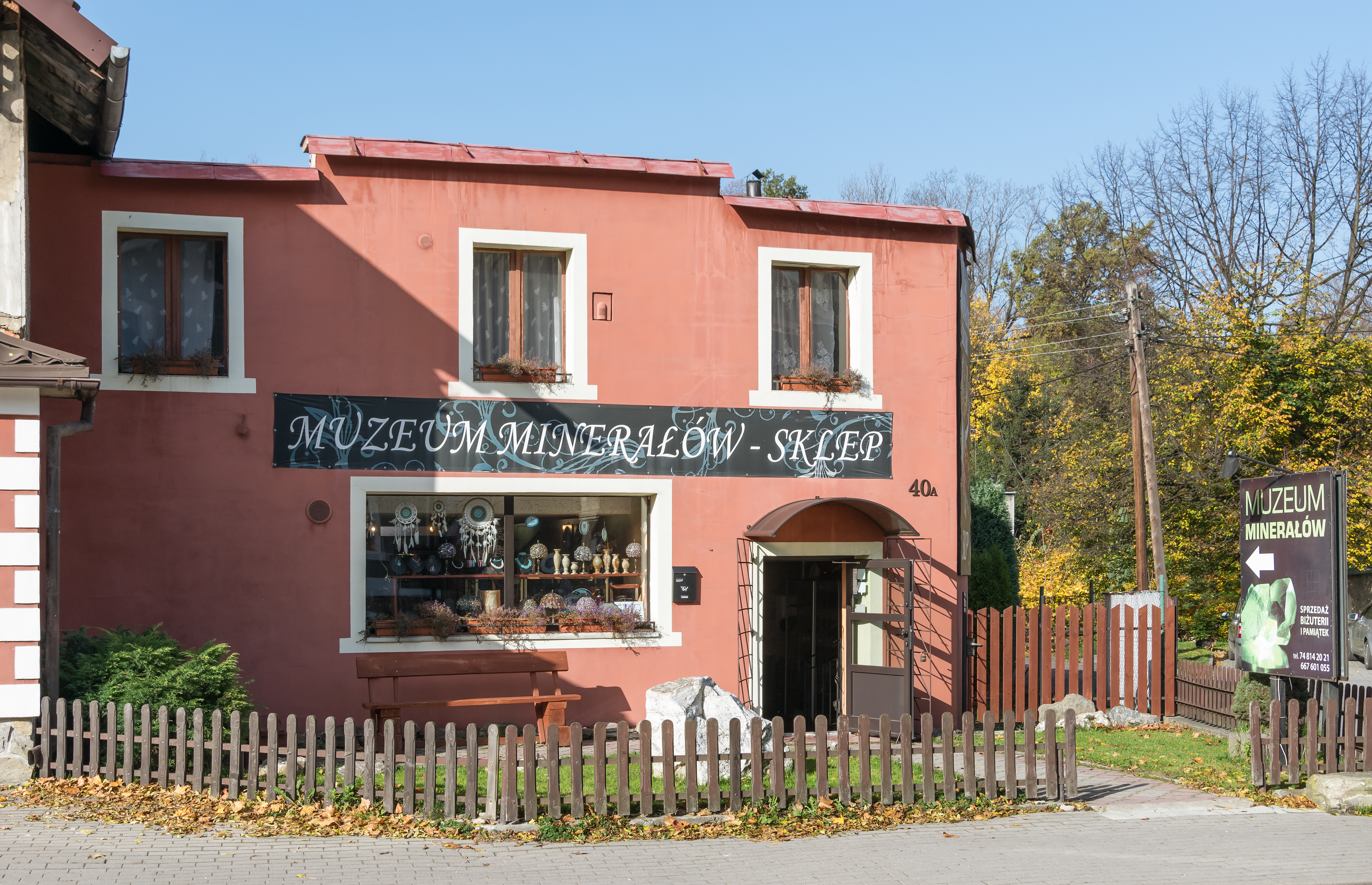 Museum of Minerals in Stronie Śląskie